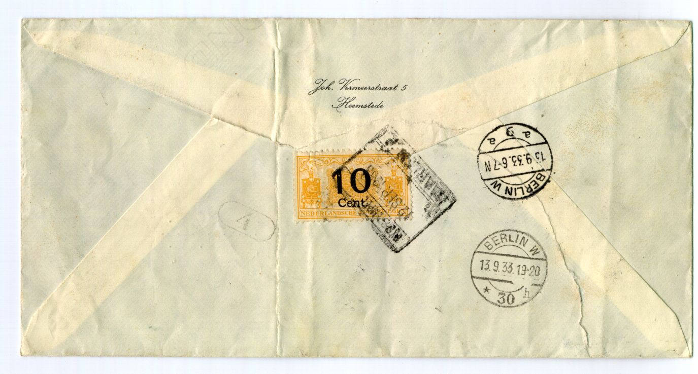 Back of Dutch railway letter 1933